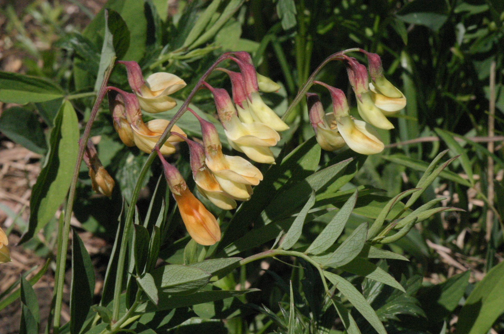 Lathyrus laevigatus